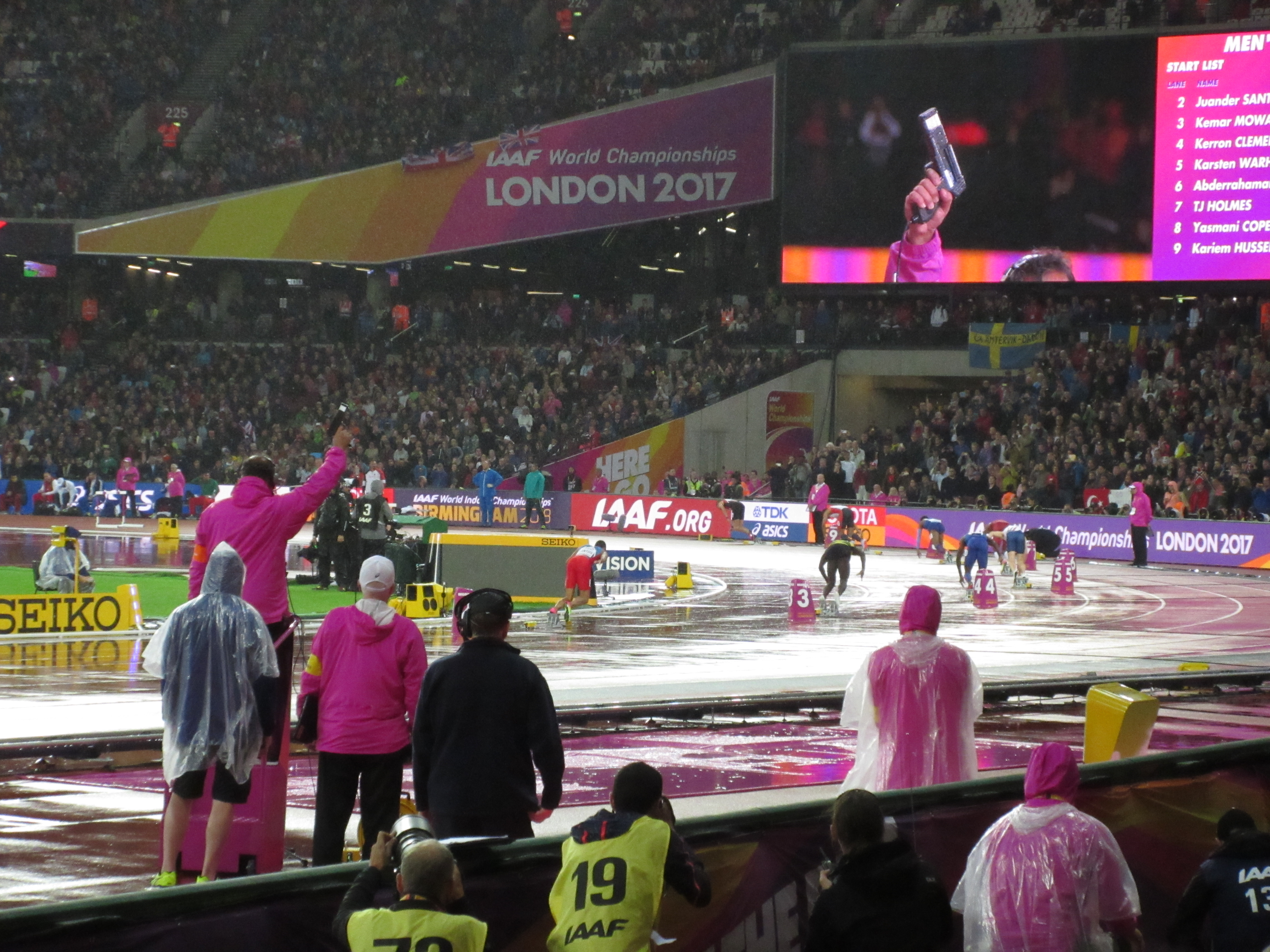 Start of men's 400m hurdles final